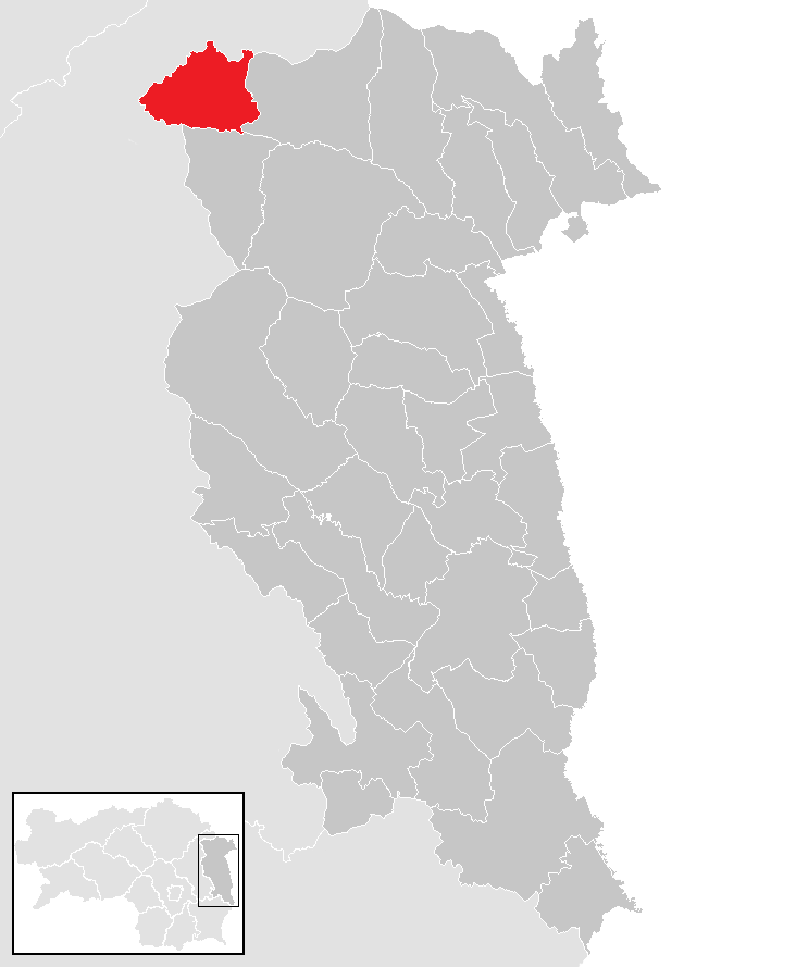 district Hartberg-Fürstenfeld